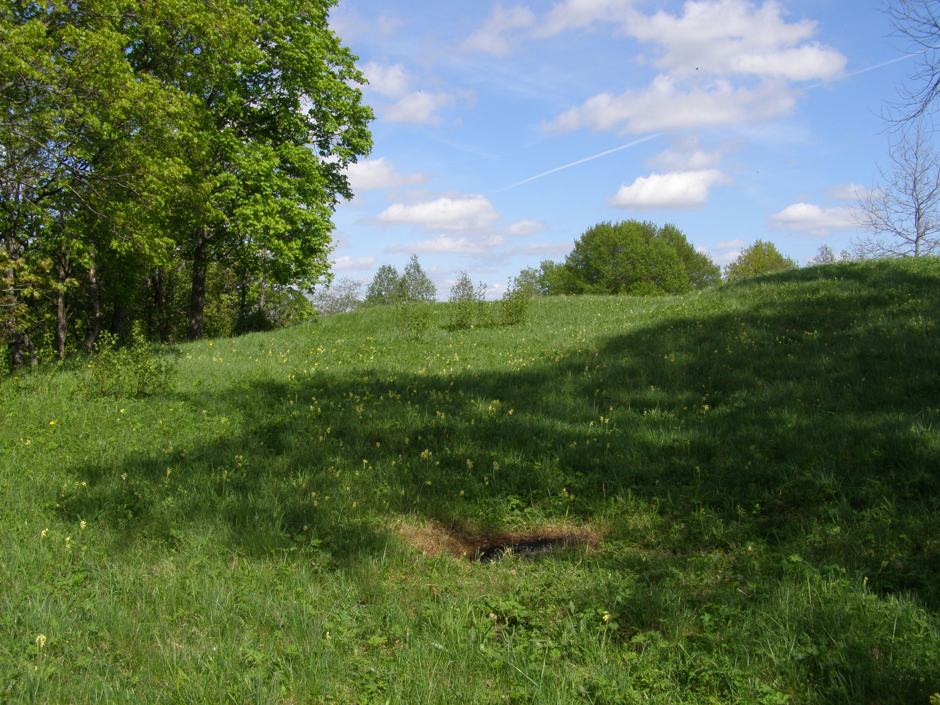 Biržuvėnai hillfort, Telšiai district, LithuaniaLietuvių: Biržuvėnų piliakalnis, Telšių rajonas, Lietuva